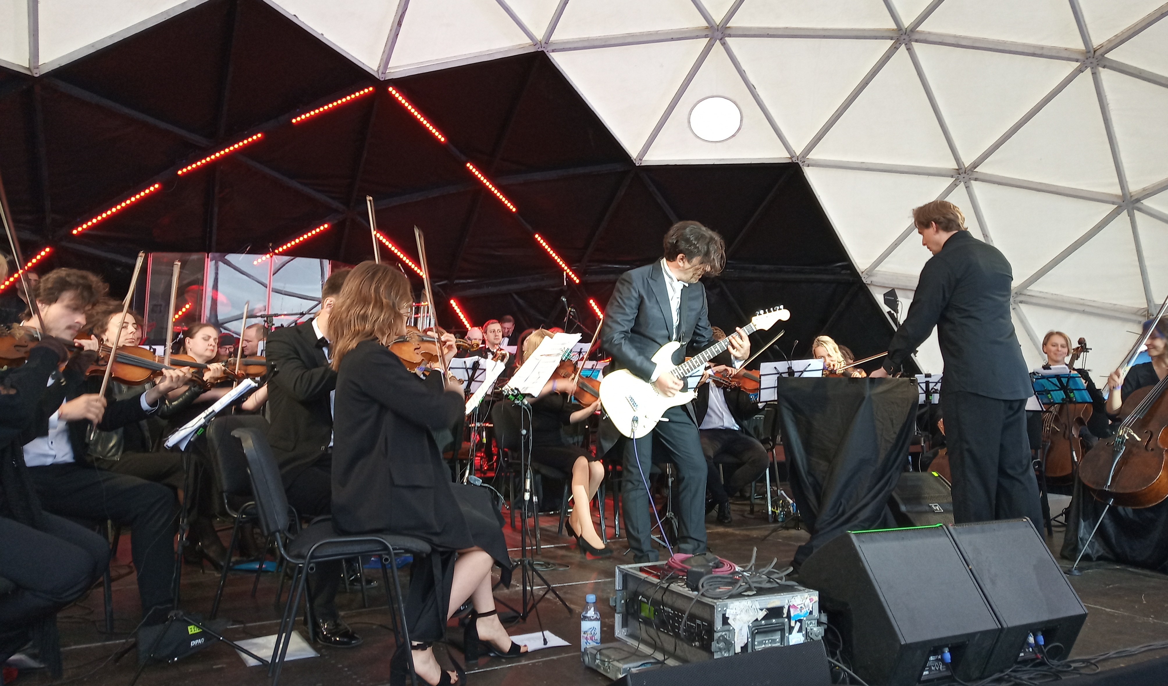 Simphonic Kino